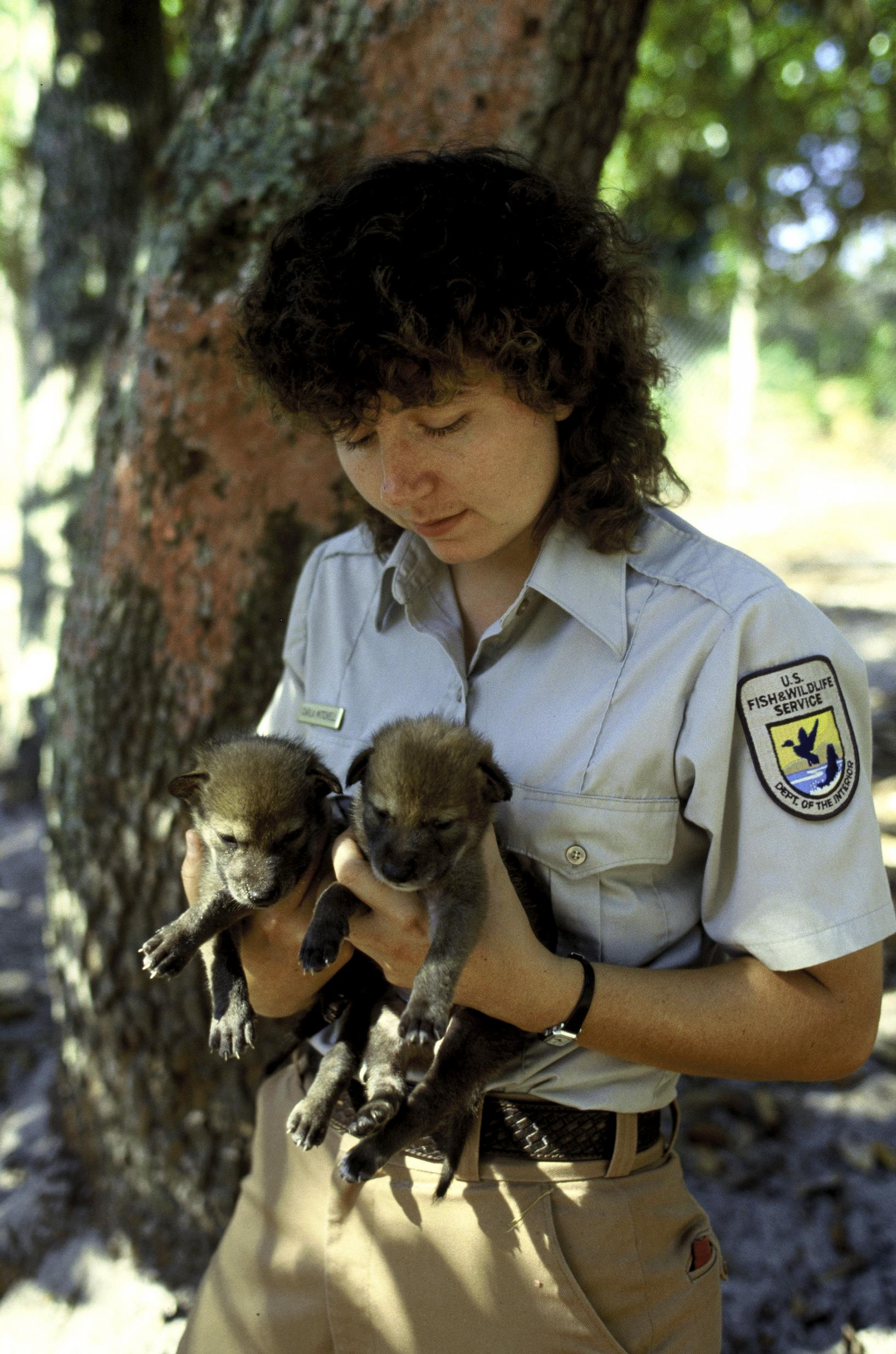 FWS staff with two red wolf pups bred in captivity. The red wolf is an endangered species that is currently found in the wild only as experimental populations in Tennessee and North Carolina. These carefully managed wild populations contain approximately 60 animals. The remaining red wolves are located in 31 captive- breeding facilities in the United States. The captive population presently numbers approximately 180 animals.